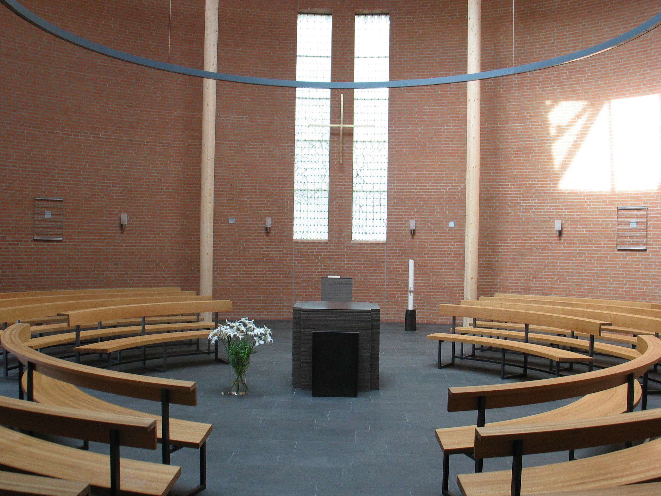 Interior of the Gabrielkirche in Ismaning, Bavaria, Germany